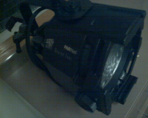 A Source Four PARNel – A variation of the Source Four PAR, a wash lighting fixture intended to be an alternative for Fresnel lanterns